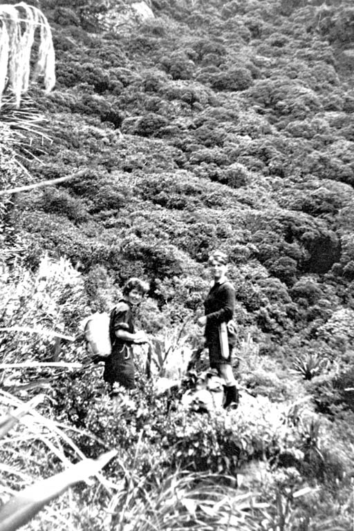 L. B. Moore on the left and L. M. Cranwell on the right approach a trig between limestone stacks. The hillside is covered in low scrub.